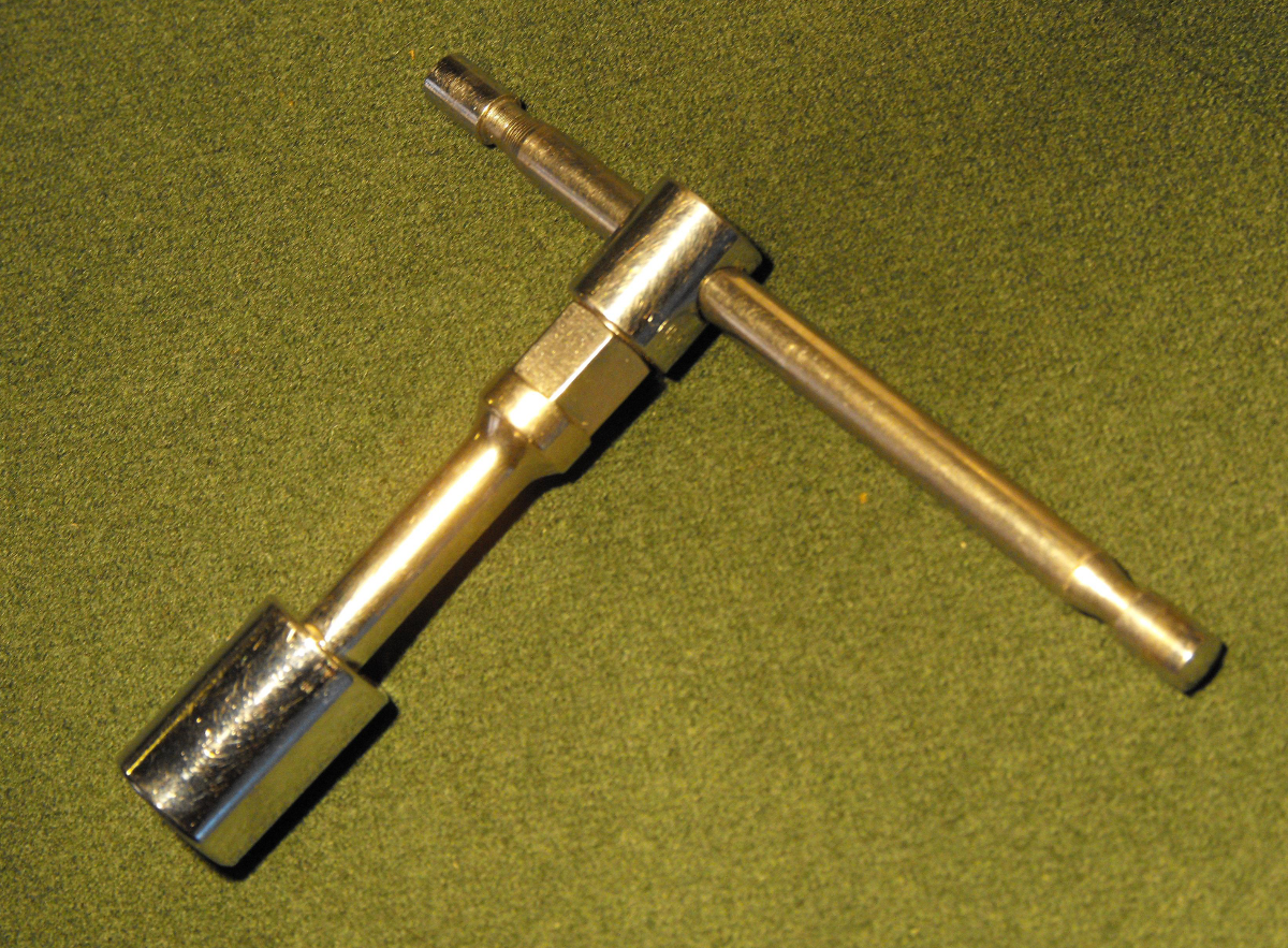 Socket spanner/wrench with tommy bar